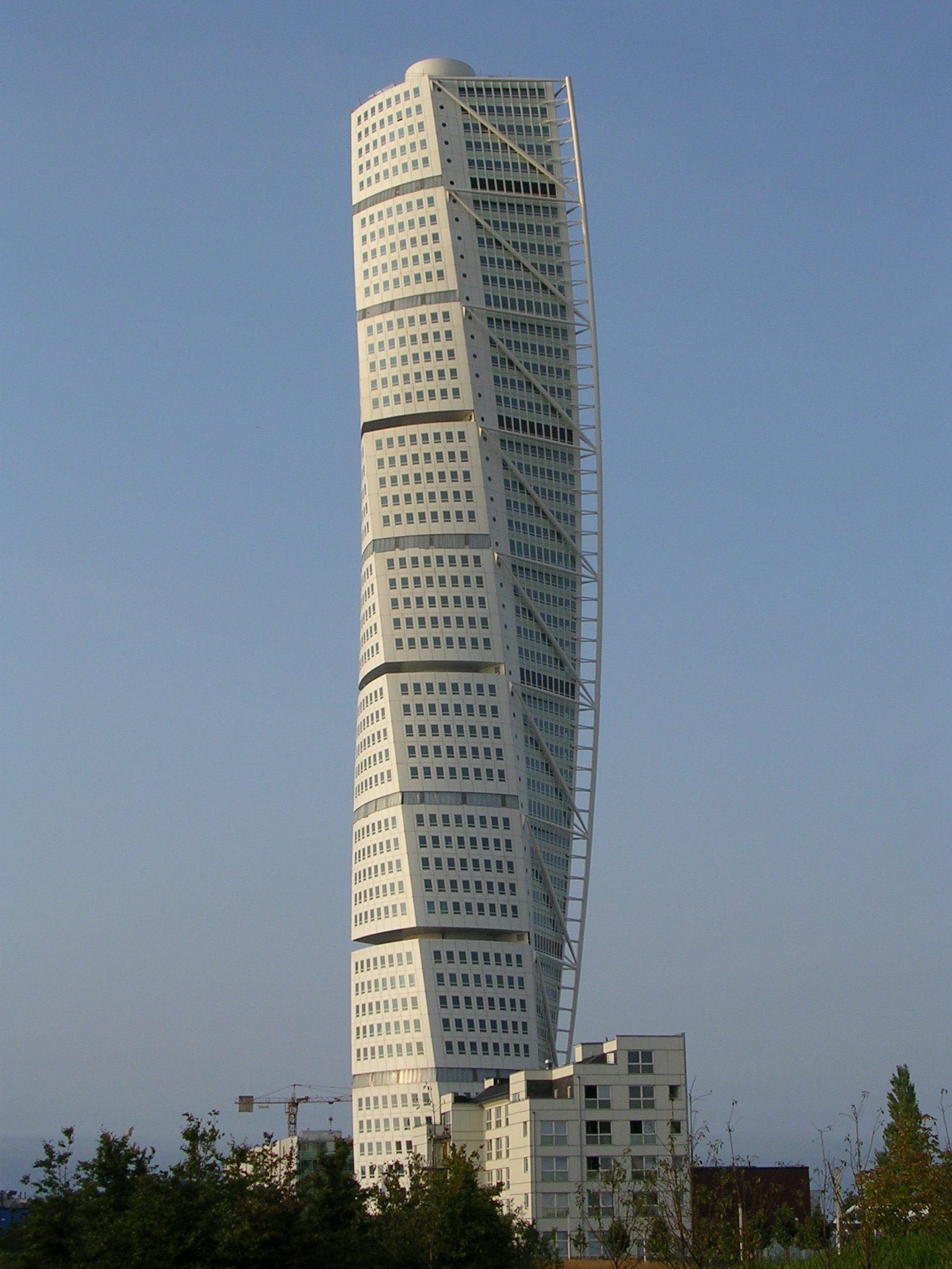 This is the skyscraper Turning Torso situated in the lovely The Western Harbour in city of Malmo. It's designed by the architect Santiago Calatrava and was officially opened 27 August 2005.